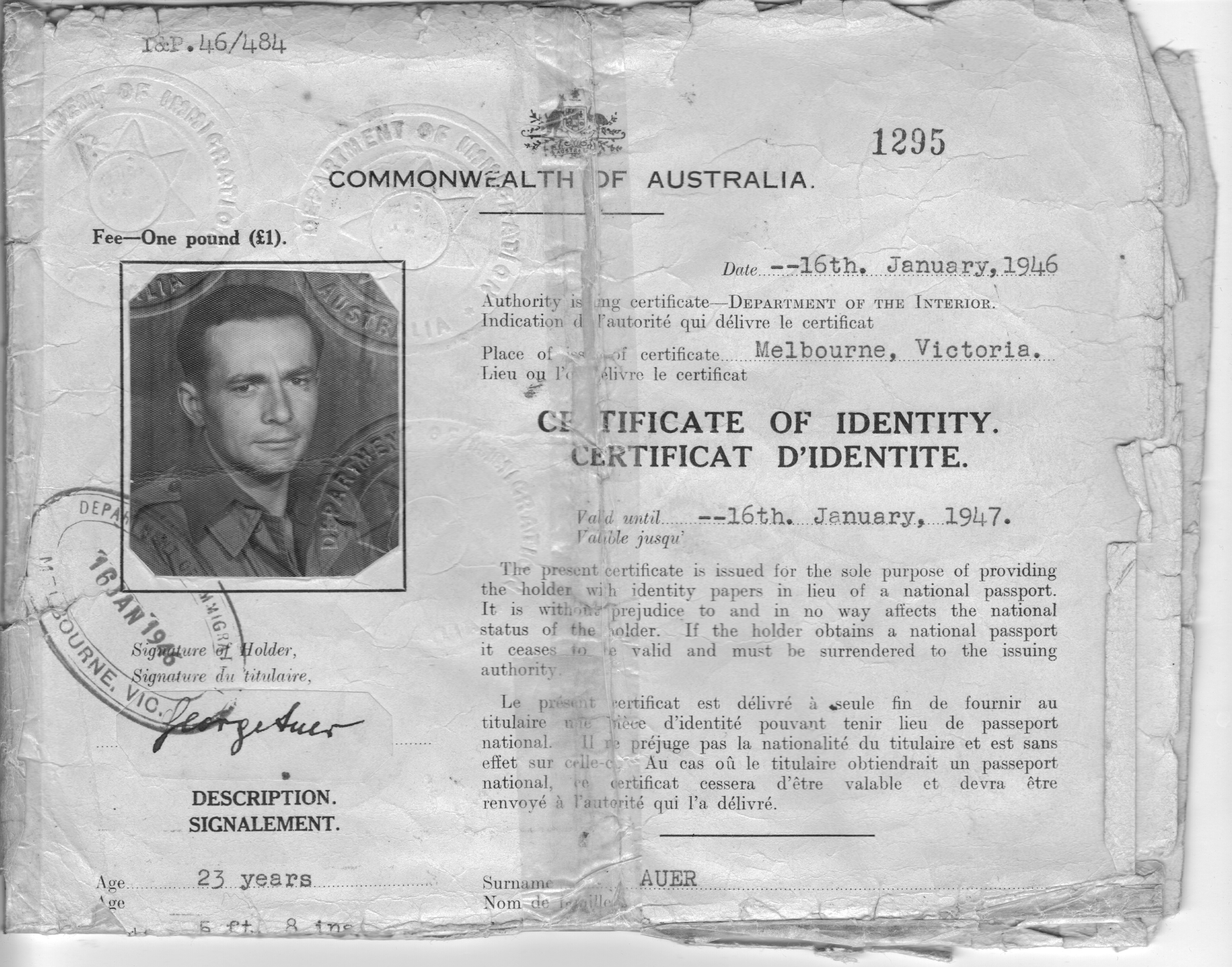 Georg Auer, born in 1922, was a Jewish refugee from Austria. He came to the UK in 1938 and was interned and shipped to Australia on the "Dunera" in 1940. He was kept in an internment camp until 1942, when he joined the Australian army. He served until 1946. This document was issued by the Australian Department of the Interior in lieu of a national passport to facilitate the return to Austria.